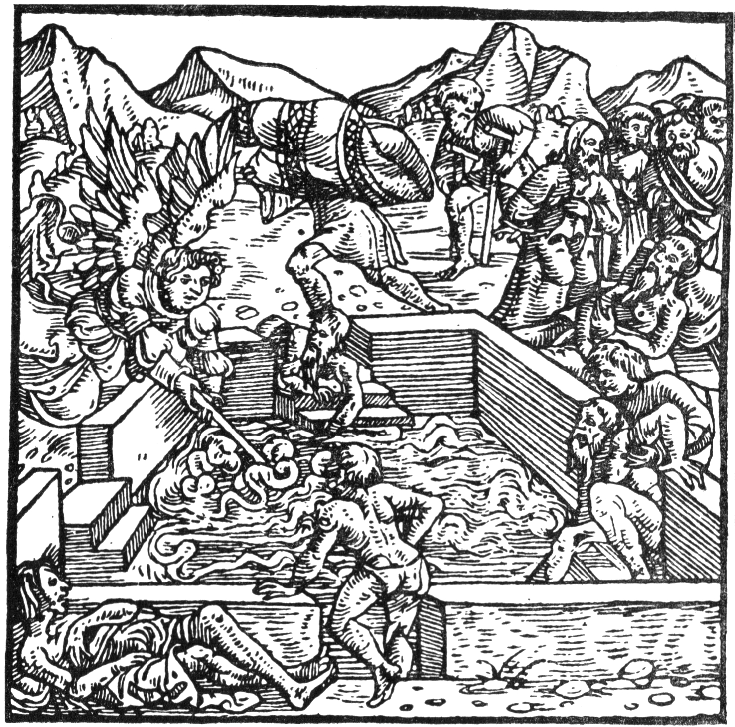 Bethesda pool